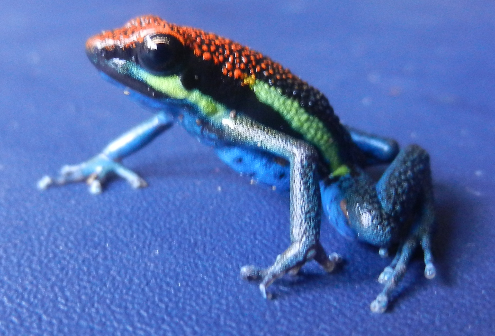 Ameerega macero at the Manu Learning Centre, Madre de Dios region, Peru.